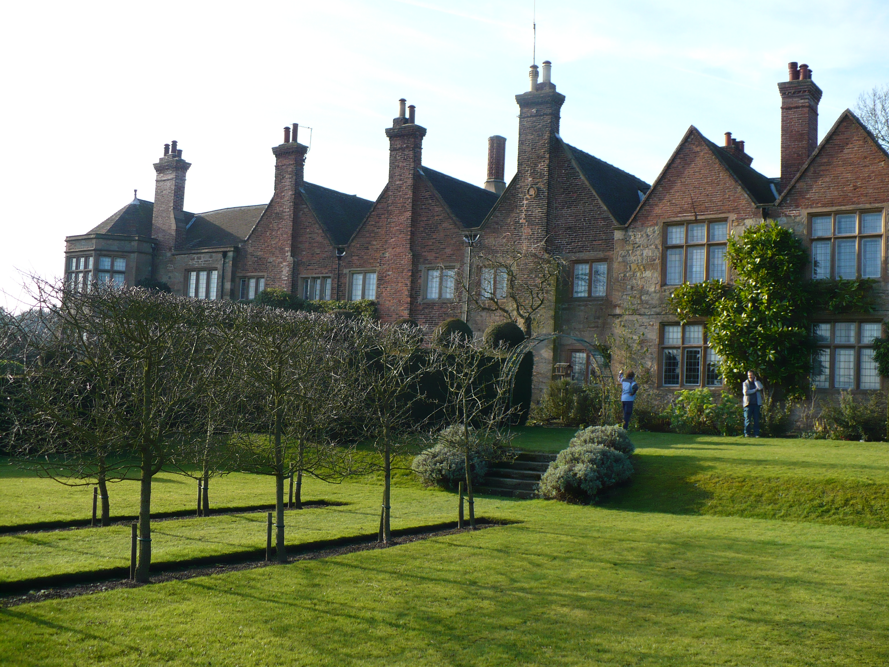 Felly Priory, near to Underwood, Nottinghamshire, Great Britain. From the rear of the house, in the formal gardens.